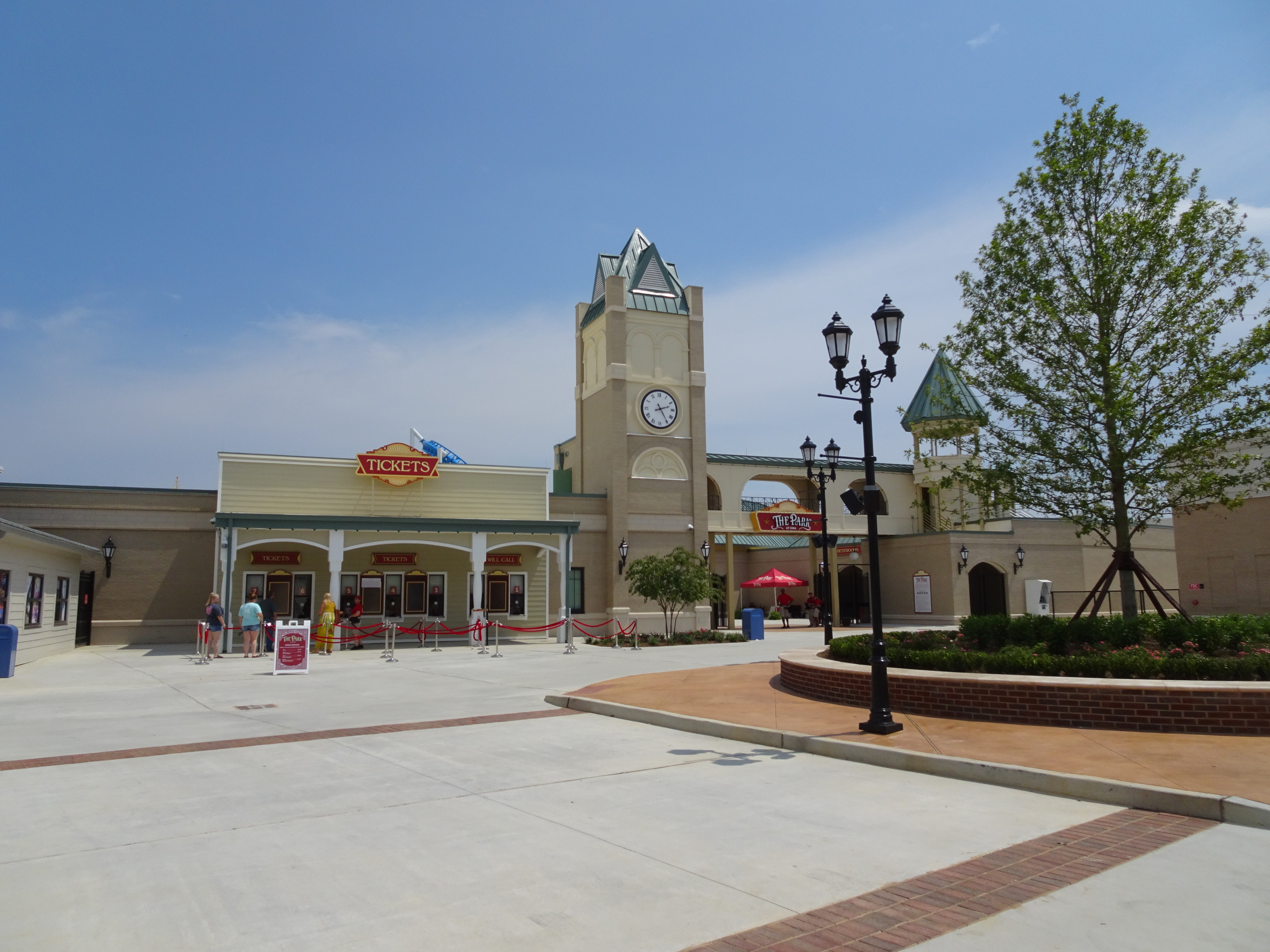 The entrance gate.